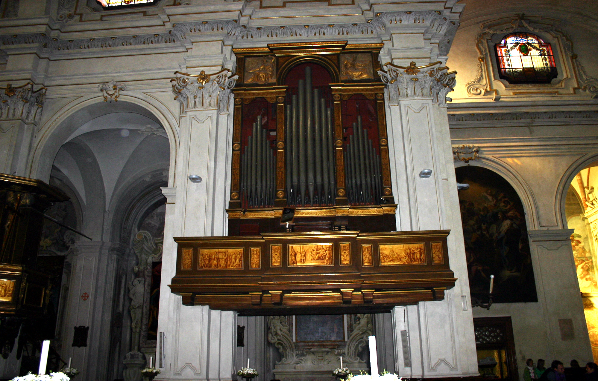 The organ, at the crossing of the main nave and the transept of san Marco church at Milan. Picture by Giovanni Dall'Orto, April 14 2007.